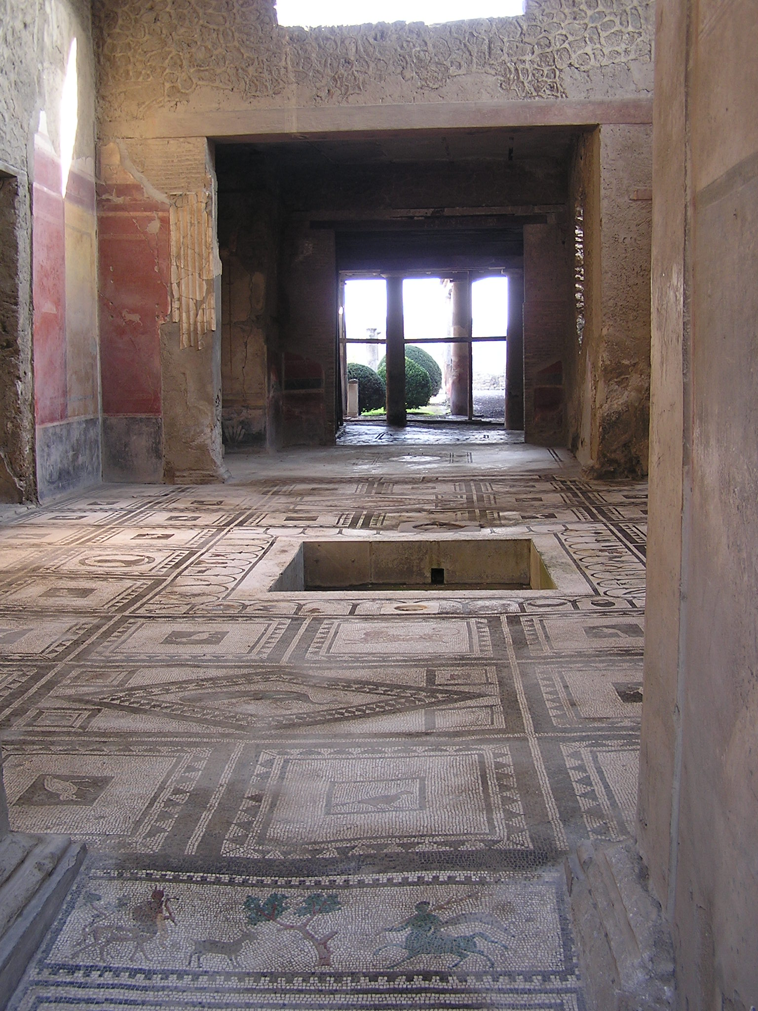 A house in Pompeii